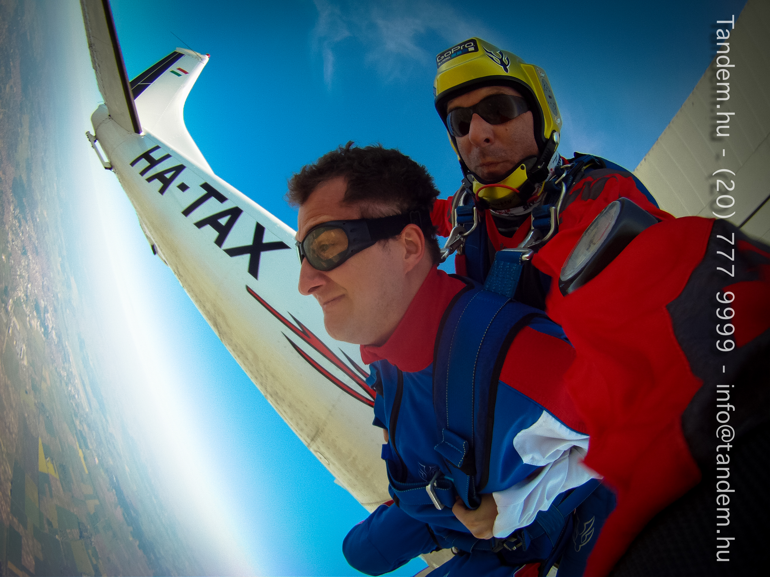 Tandemjump from Cessna 182 airplane with handy cam.